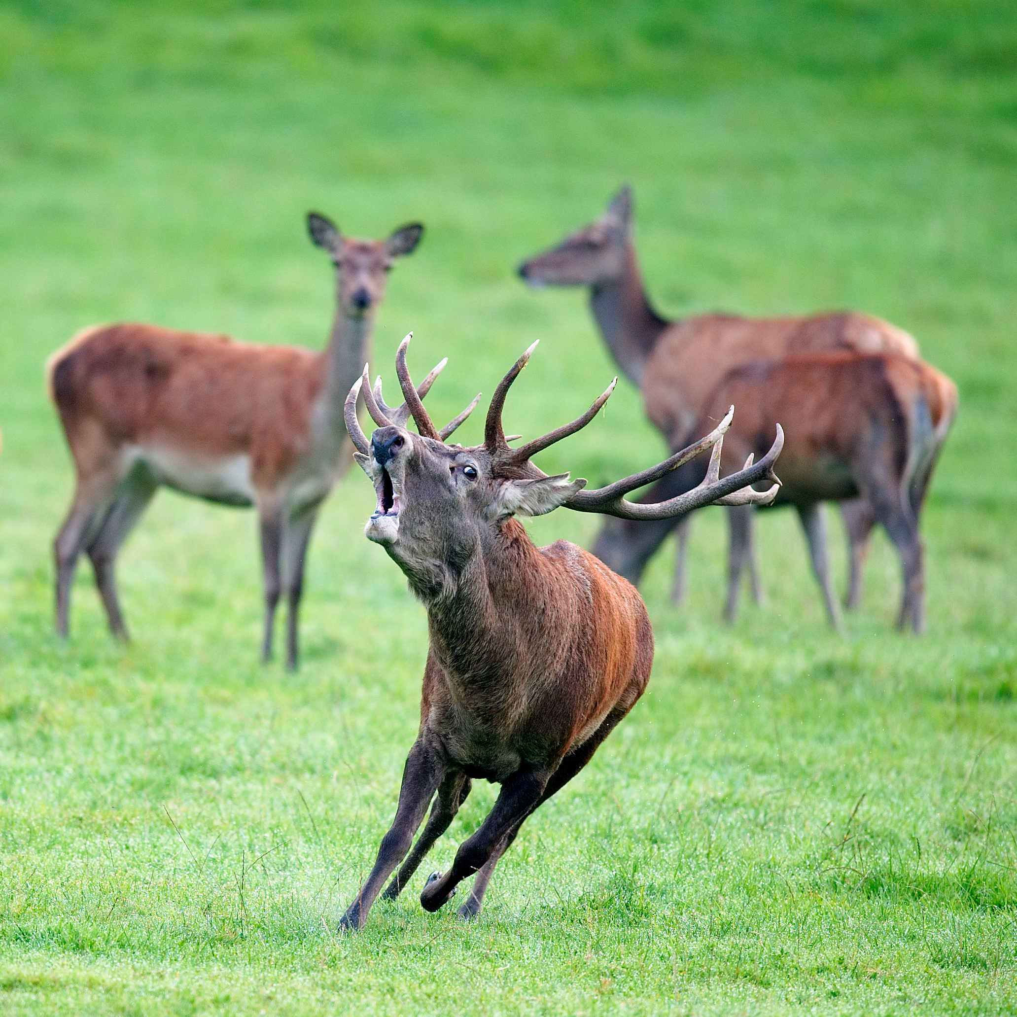 Red deer Cervus elaphus, in Freyr forest, near Han-sur-Lesse, Belgium.